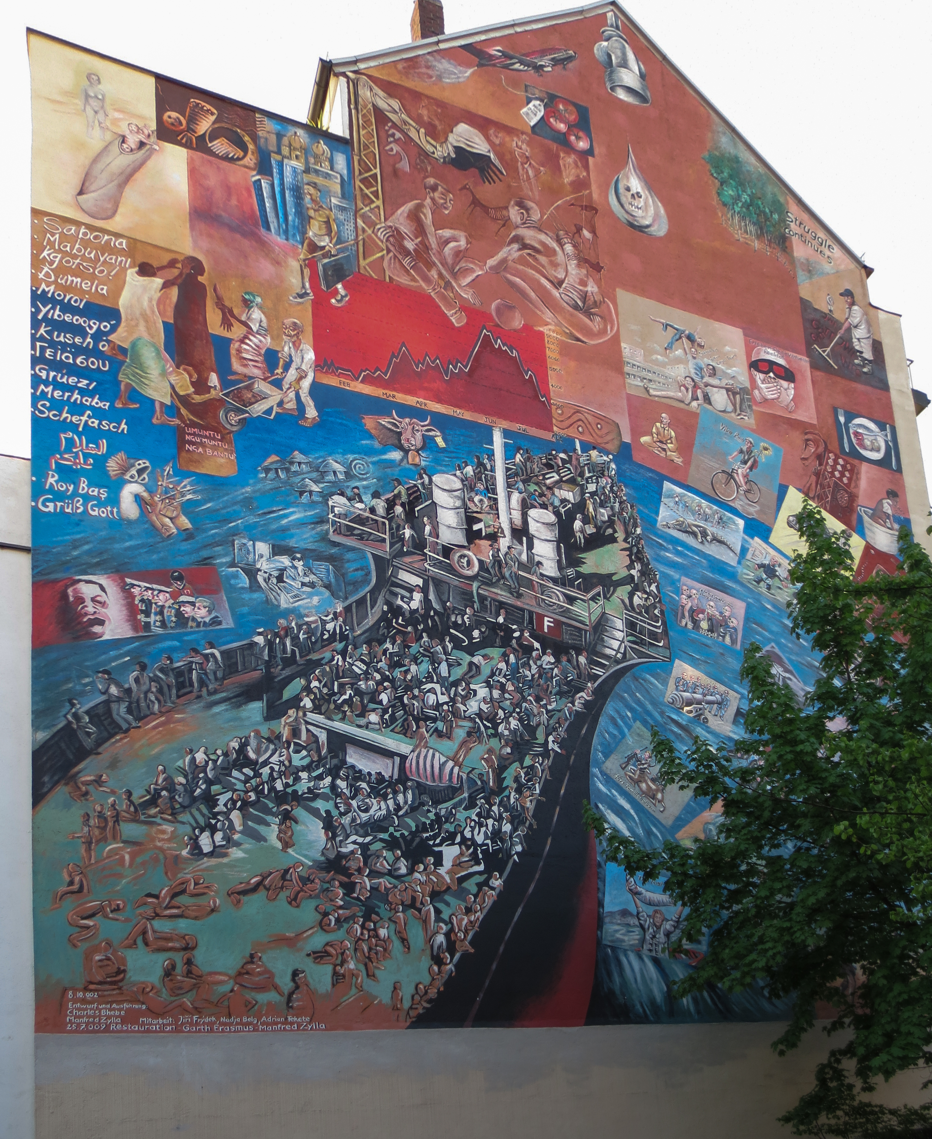 The Eine-Welt-Haus in Munich at Ludwigsvorstadt. The Graffito